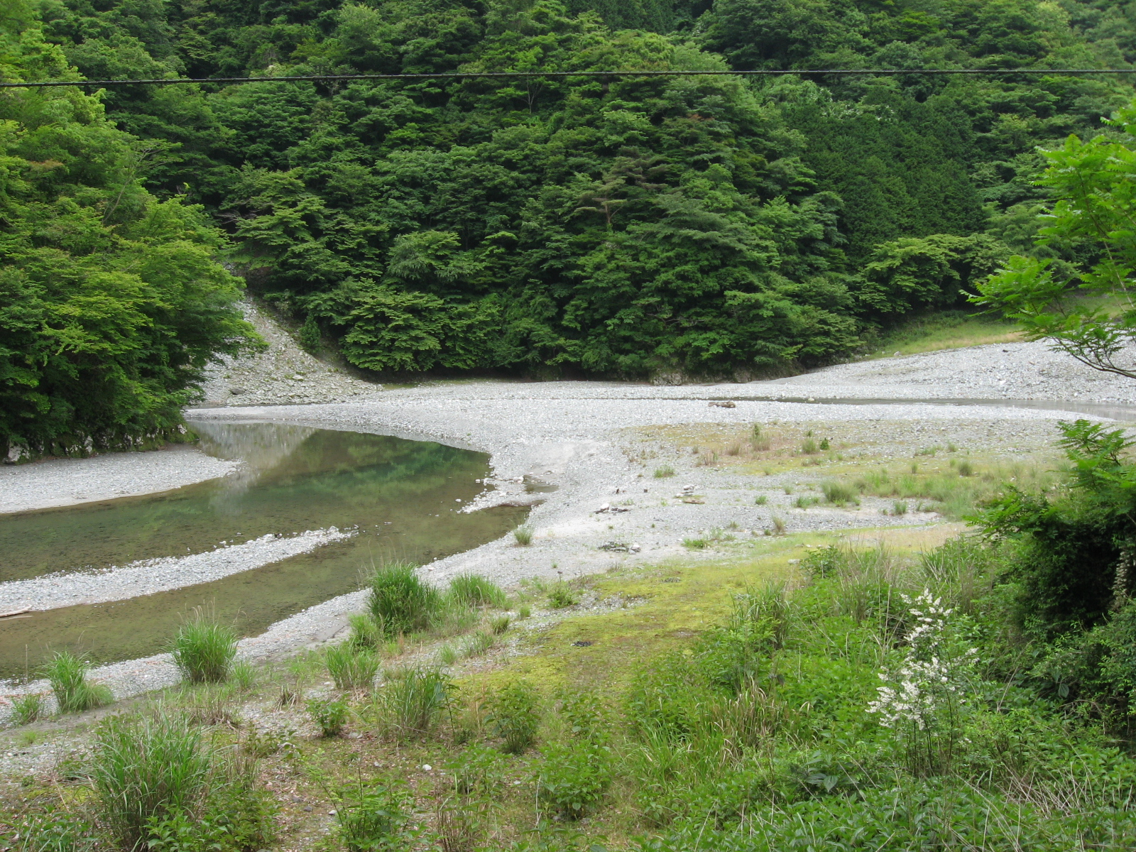 Kurokura-river (玄倉川 Kurokura-gawa) in Yamakita-town, Kanagawa prefecture, Honshū, Japan.